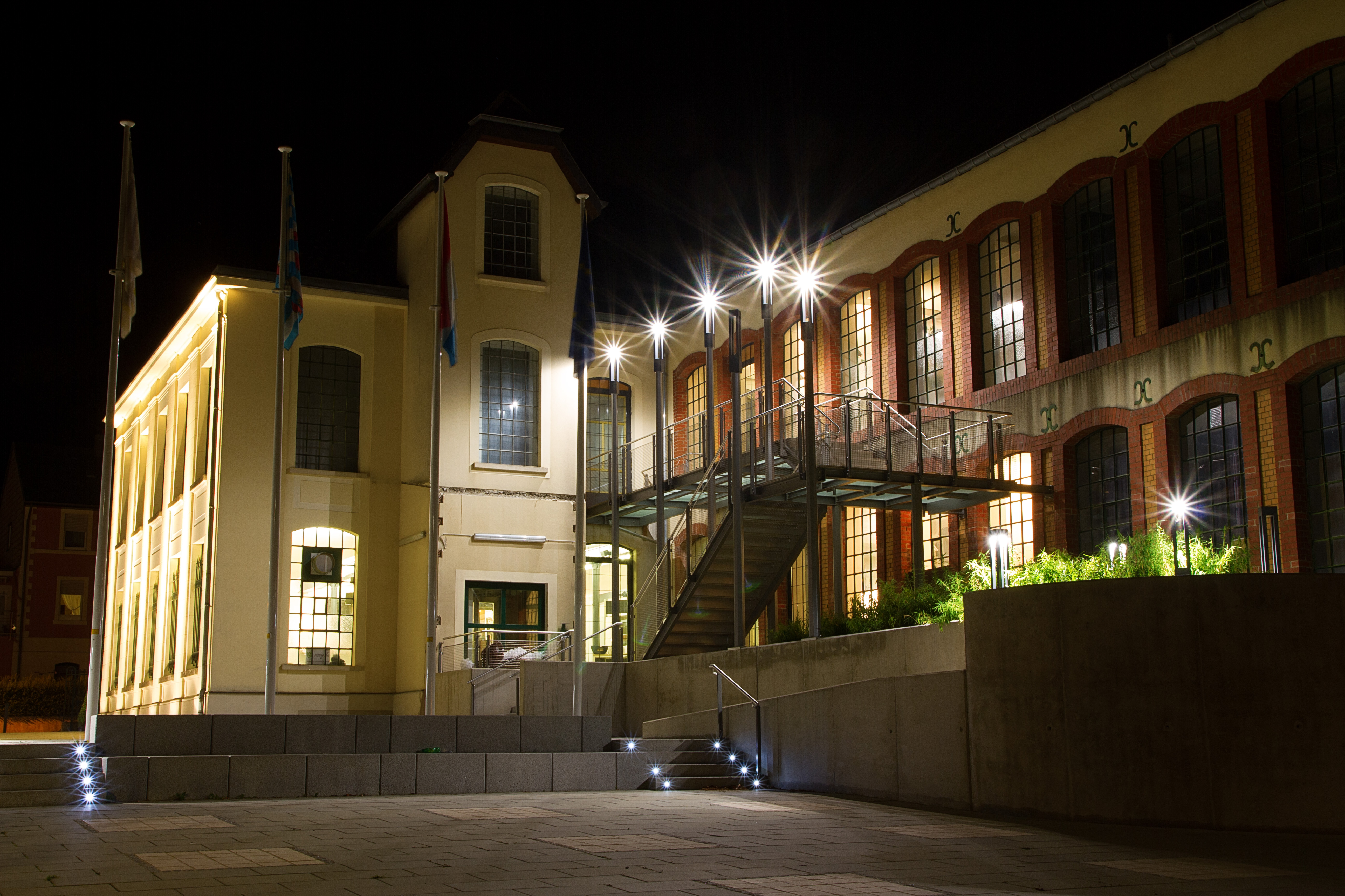 The "Schungfabrik" is the former shoe factory Hubert frères & Cie located in Tétange, Luxembourg. It is now a cultural centre.